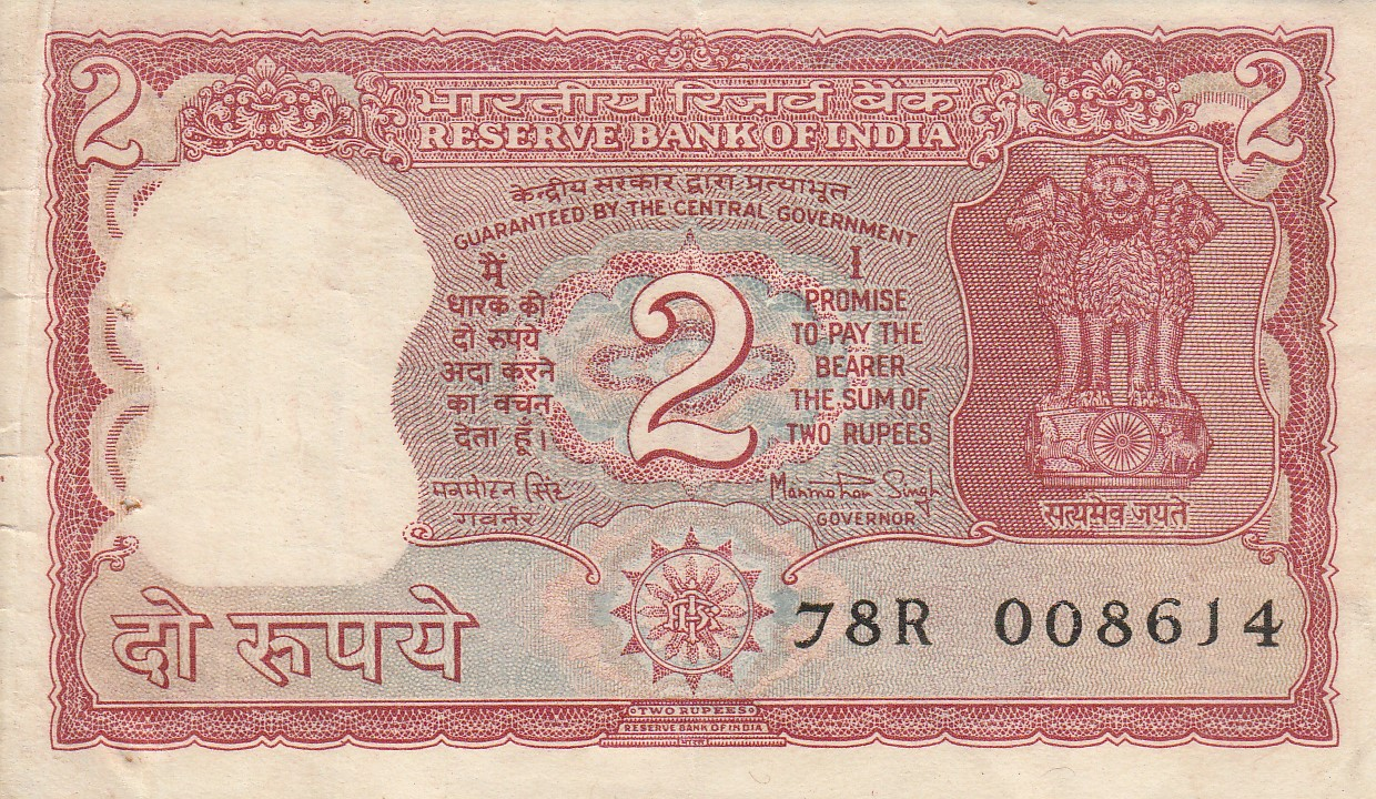 2 Indian rupees (Obverse)